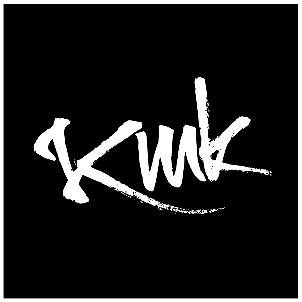 Logo de banda